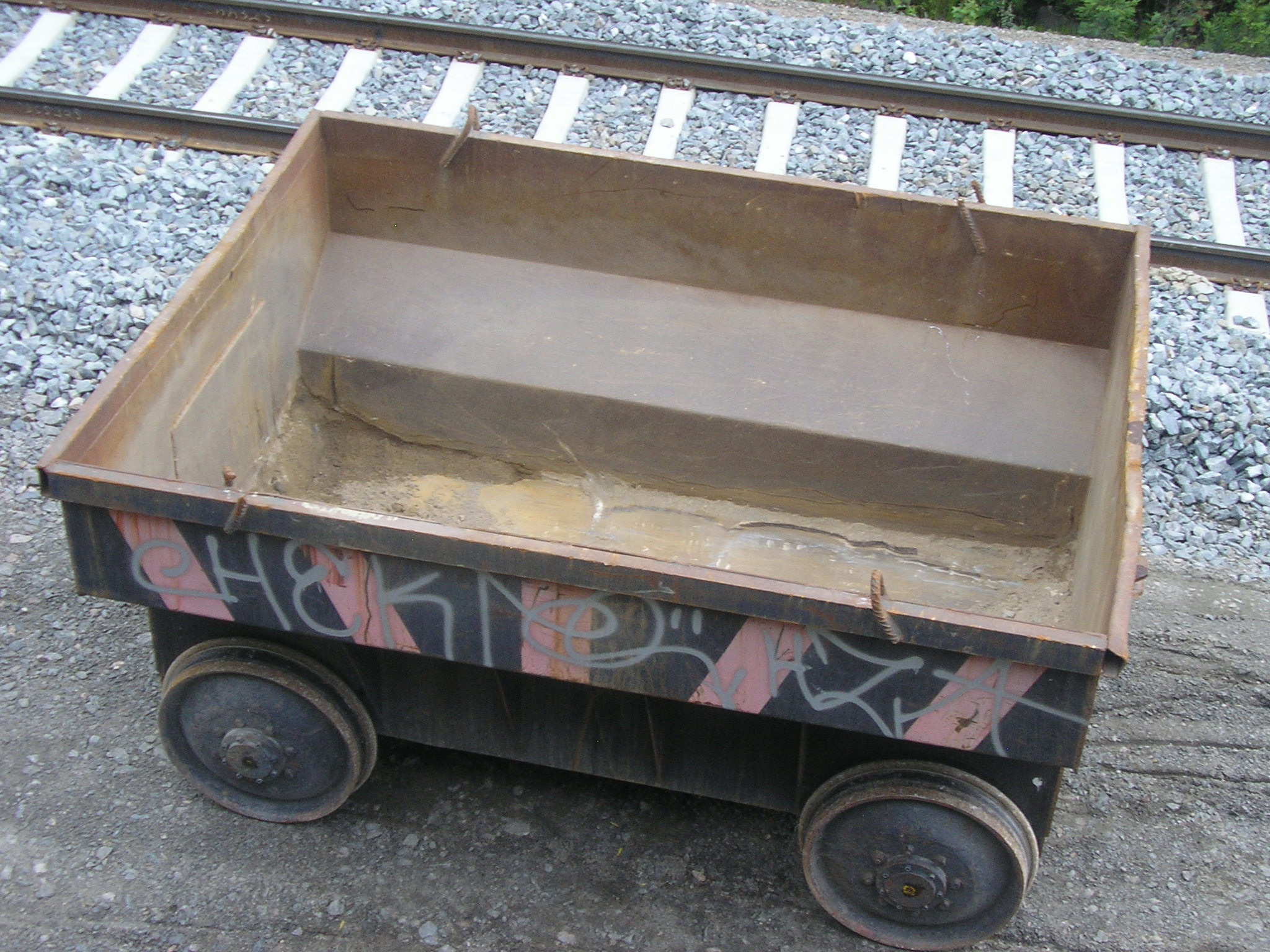 A small railway wagon in Muurame, Finland